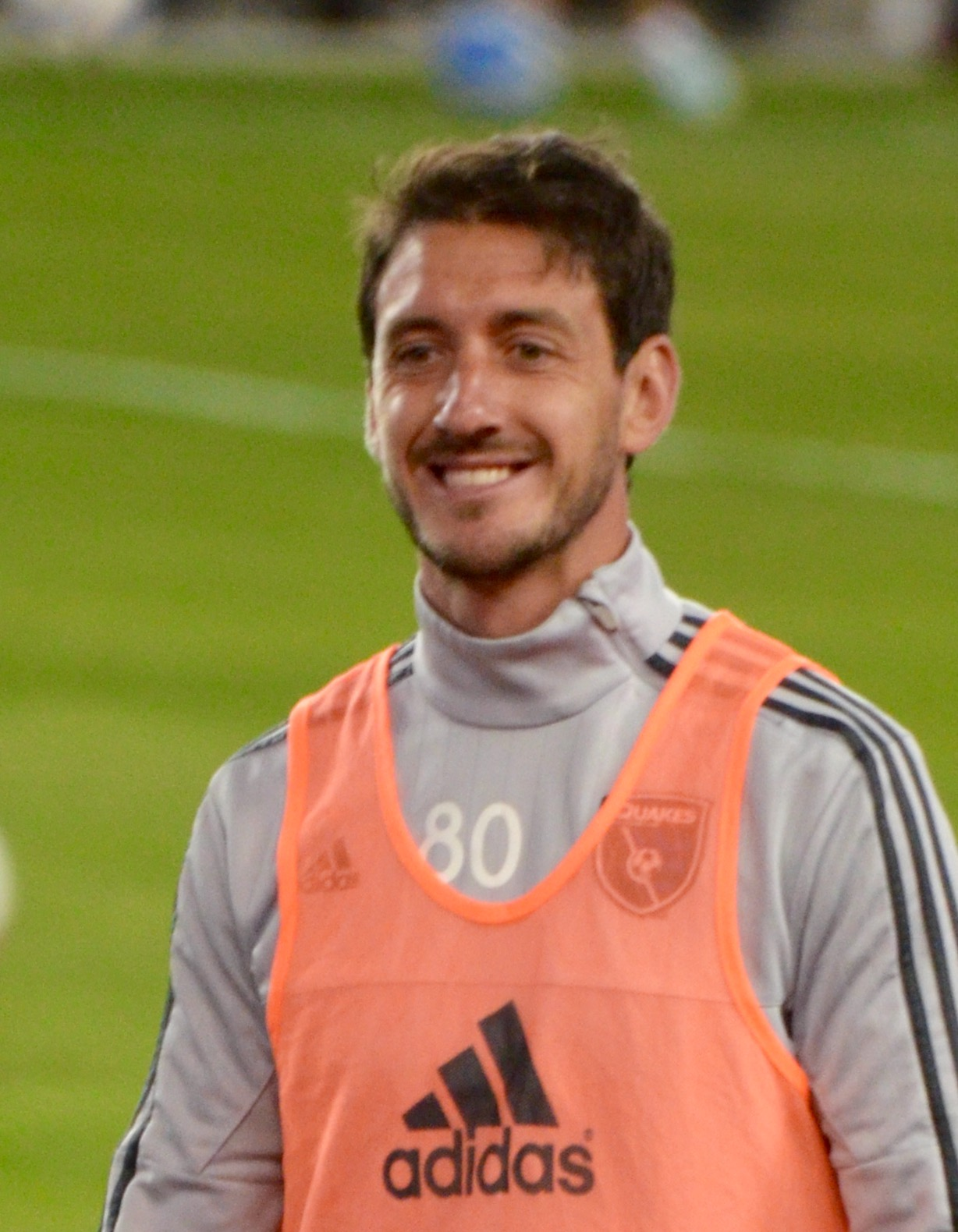 Jean-Baptiste Pierazzi warming up at half-time, Avaya Stadium, 11 April 2015